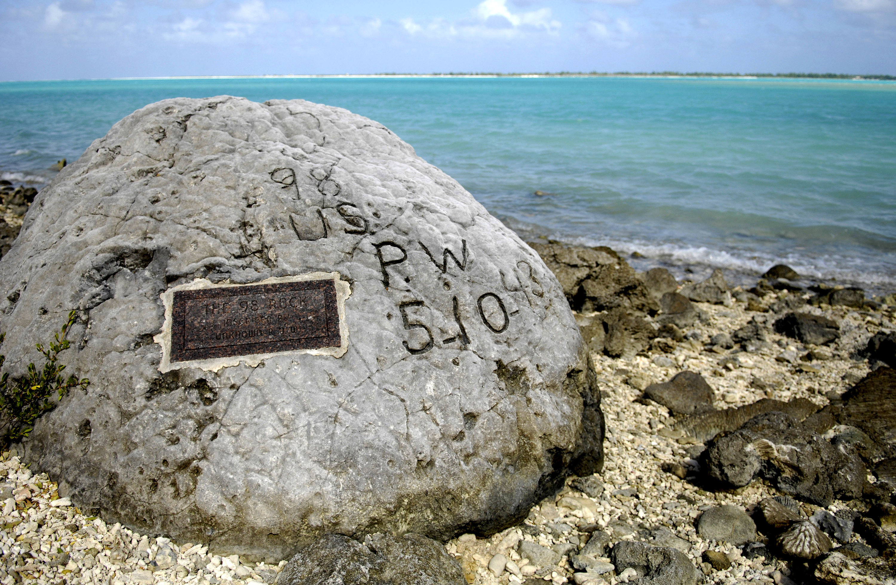 The "98 Rock" is a memorial for the 98 U.S. civilian contract POWs who were forced by their Japanese captors to rebuild the airstrip as slave labor, then were blind-folded and killed by machine gun Oct. 5, 1943. An unidentified prisoner escaped, and chiseled "98 US PW 5-10-43" on a large coral rock near their mass grave, on Wilkes Island at the edge of the lagoon. The prisoner was recaptured and beheaded by the Japanese admiral, who was later convicted and executed for war crimes. (U.S. Air Force photo/Tech. Sgt. Shane A. Cuomo)